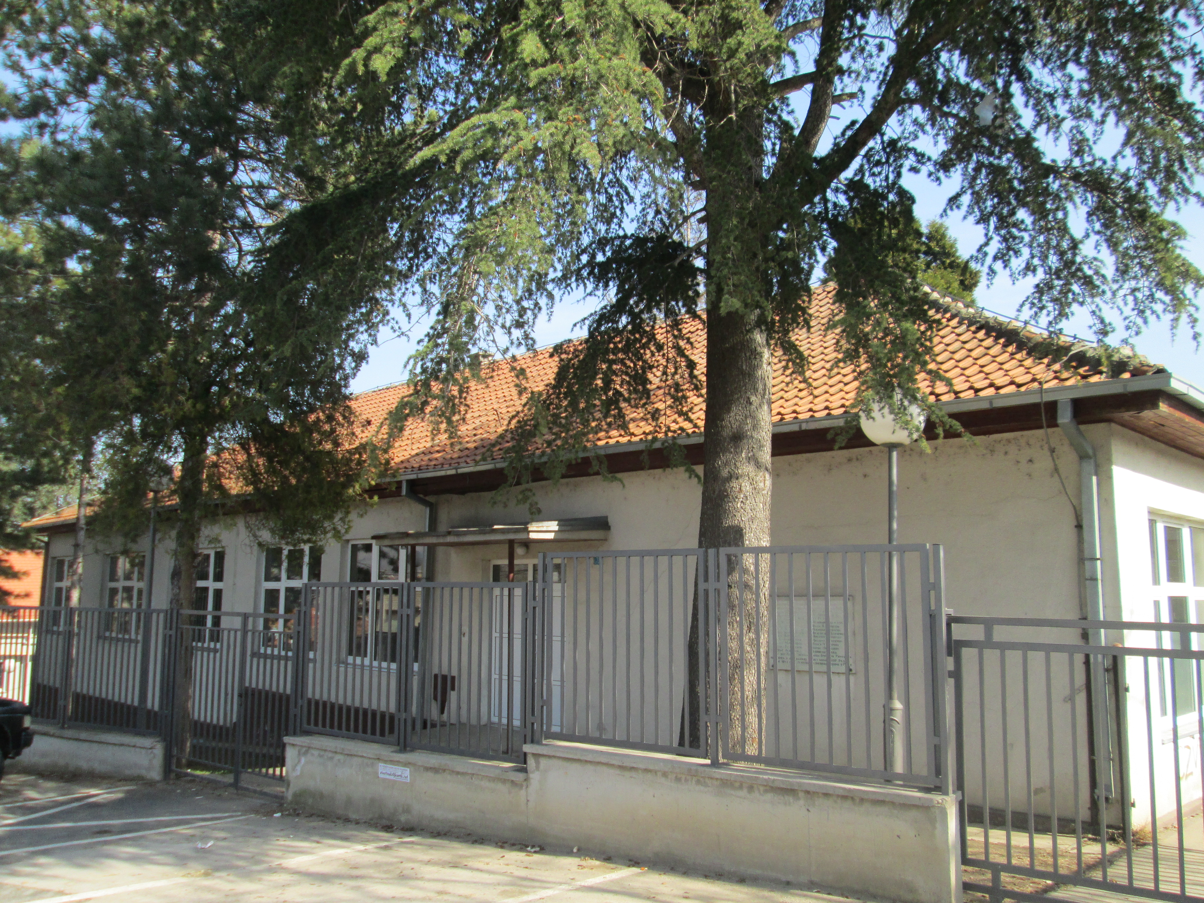 Primary school "Cana Marjanovic", Ralja.Српски (ћирилица): Основна школа „Цана Марјановић“, Раља.